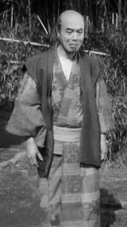 Screenshot from The Life of Oharu, 1952 film. Ichirō Sugai as Oharu's father.